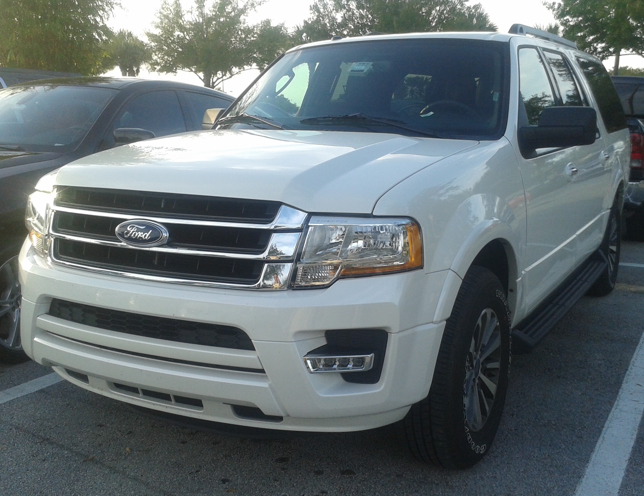 2015 Ford Expedition EL photographed in Orlando, Florida, USA.